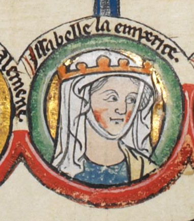 Isabella of England